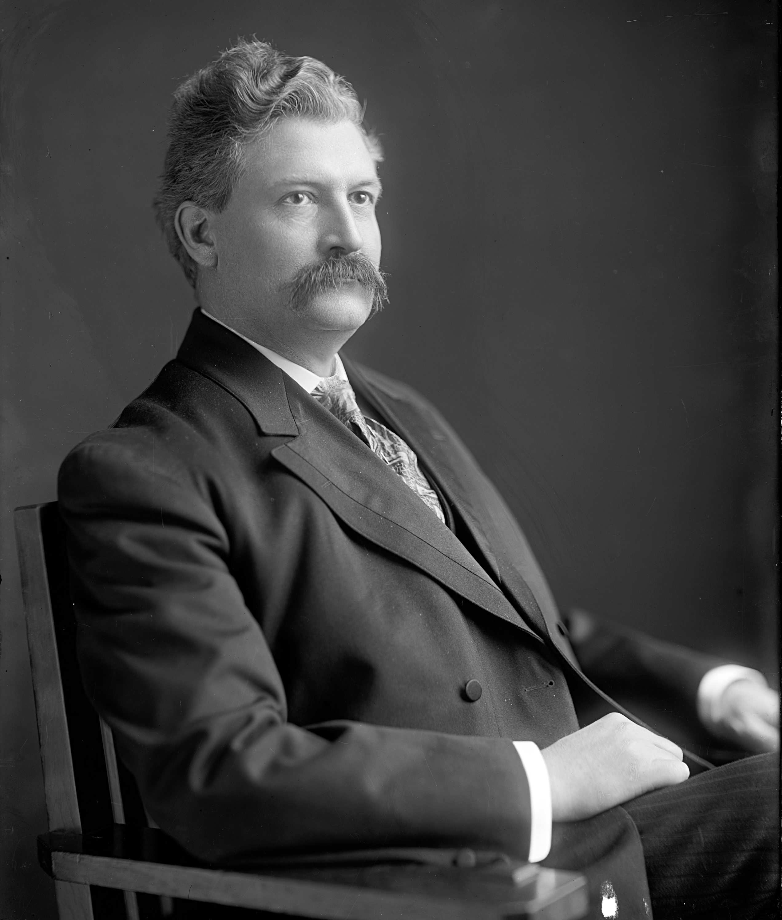 J. N. Langham, US Representative from Pennsylvania